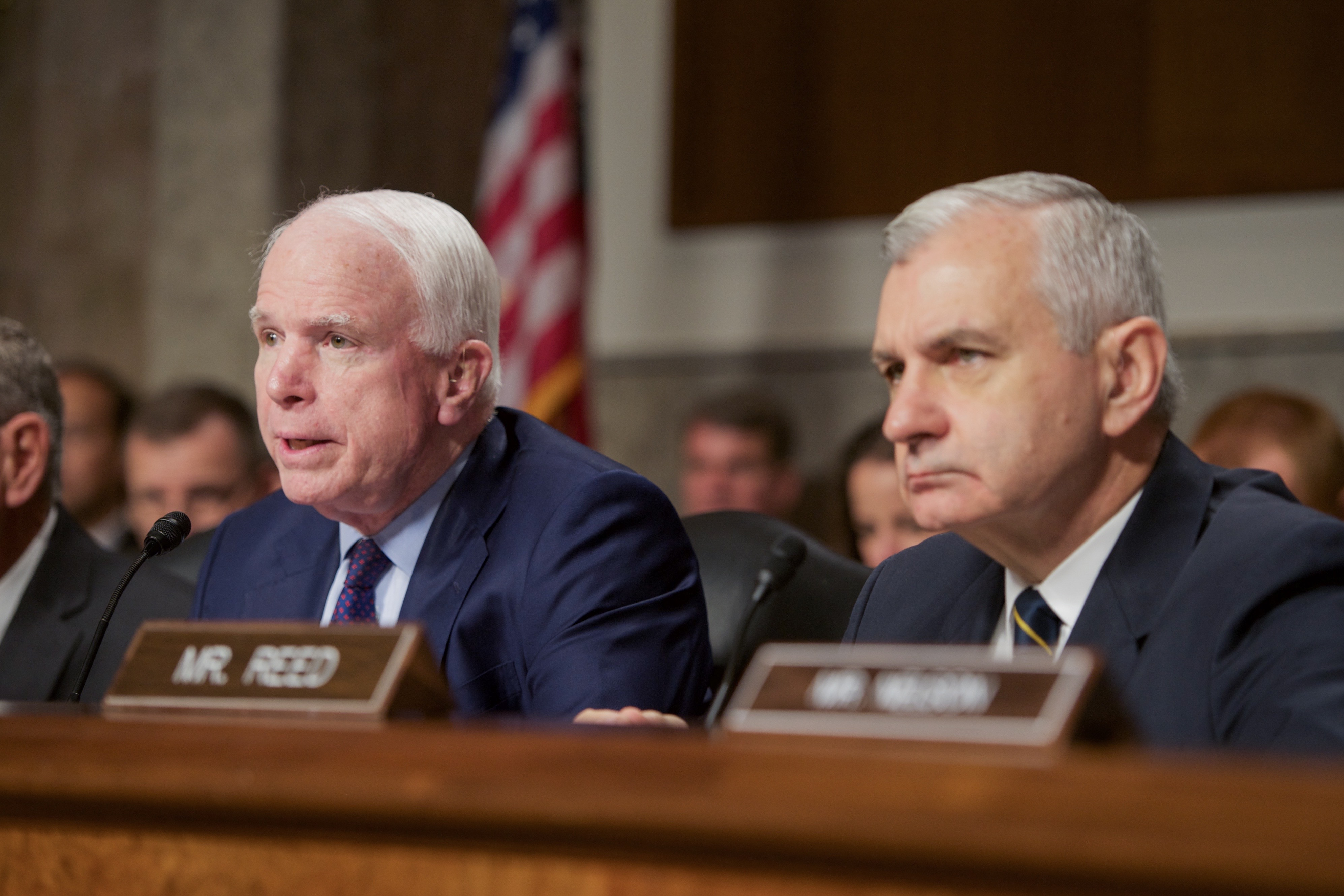 U.S. Senator John McCain, chairman of the Senate Armed Services Committee, sits with U.S. Senator Jack Reed, the panel's Ranking Member, on July 29, 2015, before they heard testimony from U.S. Secretary of State John Kerry, U.S. Defense Secretary Ash Carter, Joint Chiefs of Staff Committee Chairman Martin Dempsey, U.S. Treasury Secretary Jack Lew, and U.S. Energy Secretary Dr. Ernest Moniz in Washington, D.C.